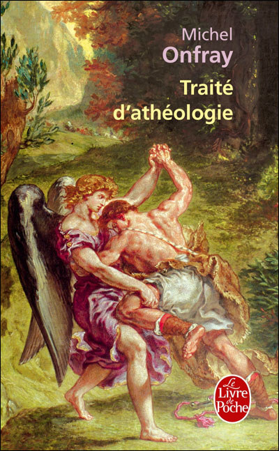 Cover of the 2006 French edition of Traité d'athéologie by Michel Onfray published by "Le Livre de Poche" (originally published in French by Grasset in 2005). The cover uses a detail of Eugène Delacroix's painting La Lutte de Jacob avec l'Ange (1861).